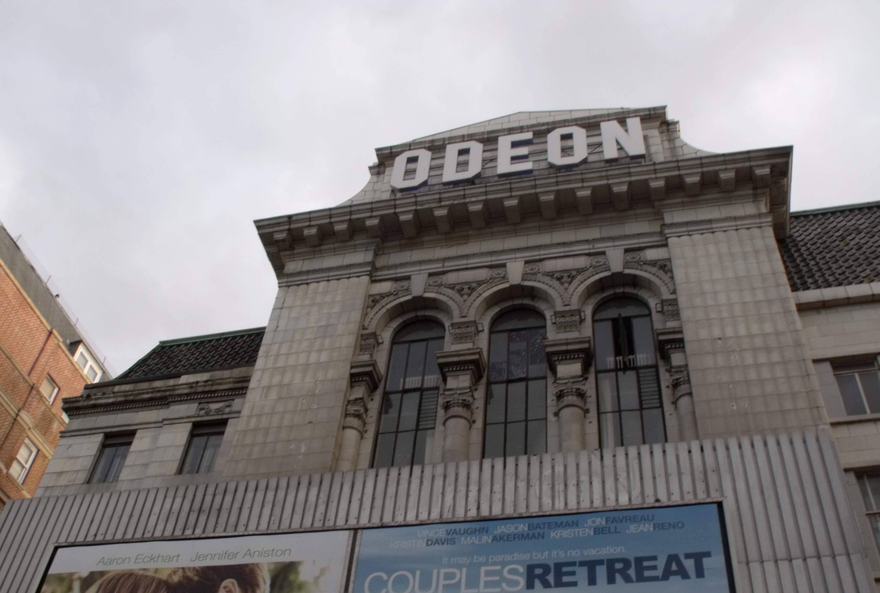 The area of London where UK film premieres take place. With loads of cinemas. This is the Odeon West End, the second Odeon cinema in Leicester Square. I think this is also used for premieres.